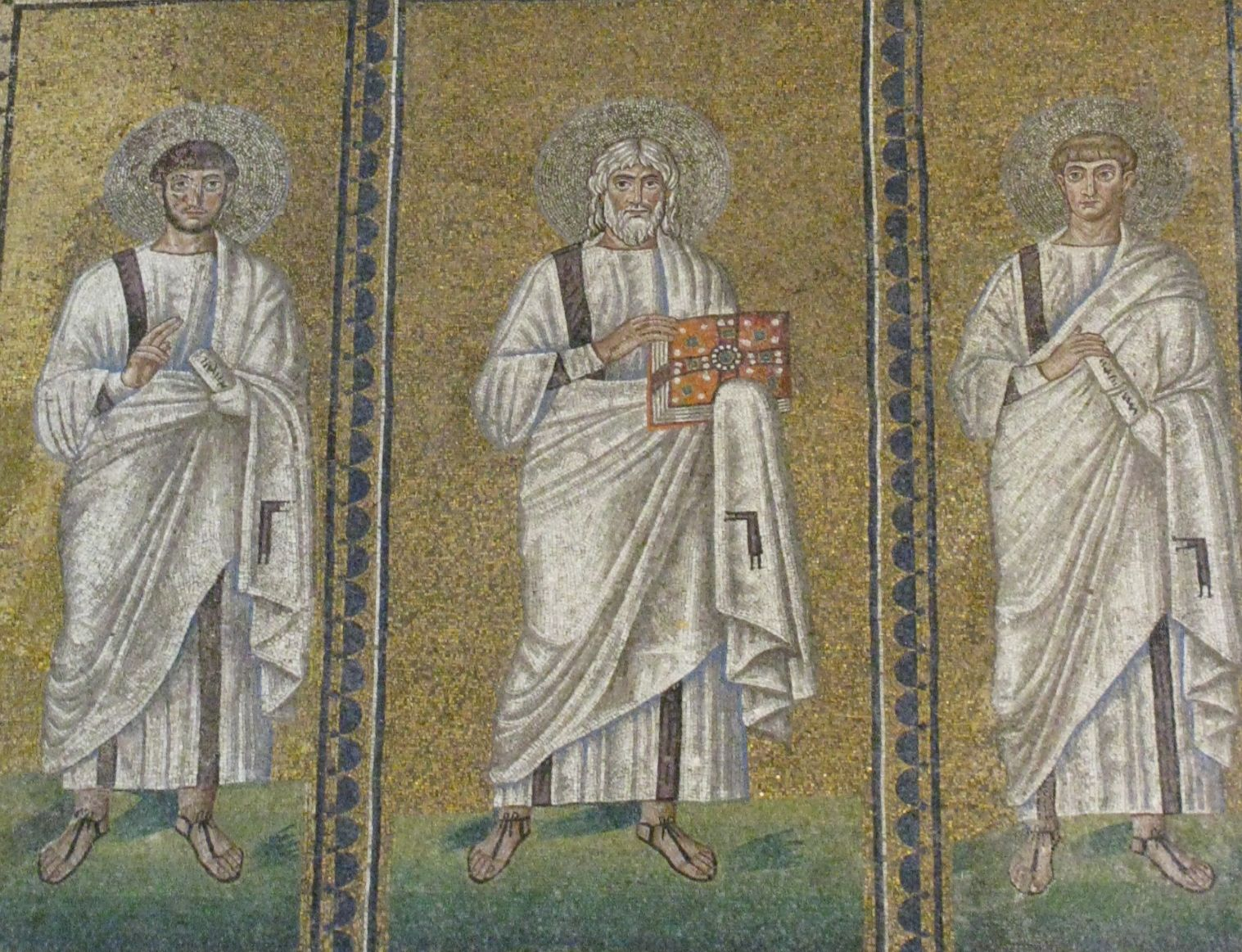 Basilica of Sant'Apollinare Nuovo in Ravenna, Italy: "Christ surrounded by angels and saints". Mosaic of a Ravennate italian-byzantine workshop, completed within 526 AD by the so-called "Master of Sant'Apollinare".